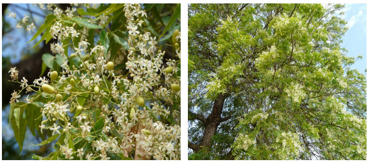 Neem flowers